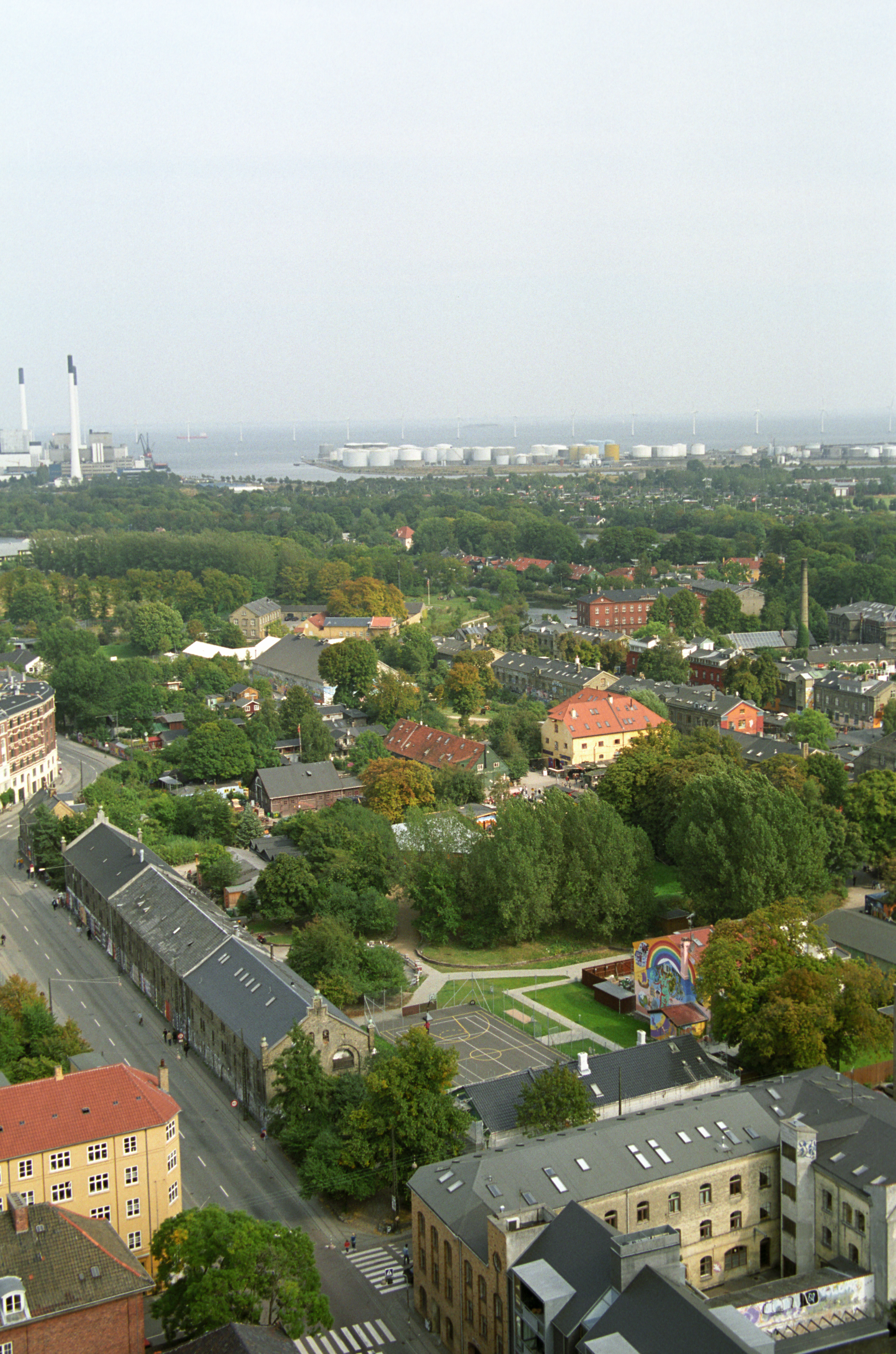 The street in the foreground is Prinsessegade, crossing Bådsmandssræde in the bottom of the picture. In the horizon is three chimneys at Amagerforbrænding and Amagerværket. The oil tanks at Prøvestenen are visible. The water area is Øresund with Sweden hardly visible. The main object, of course, is Christiania in the center.